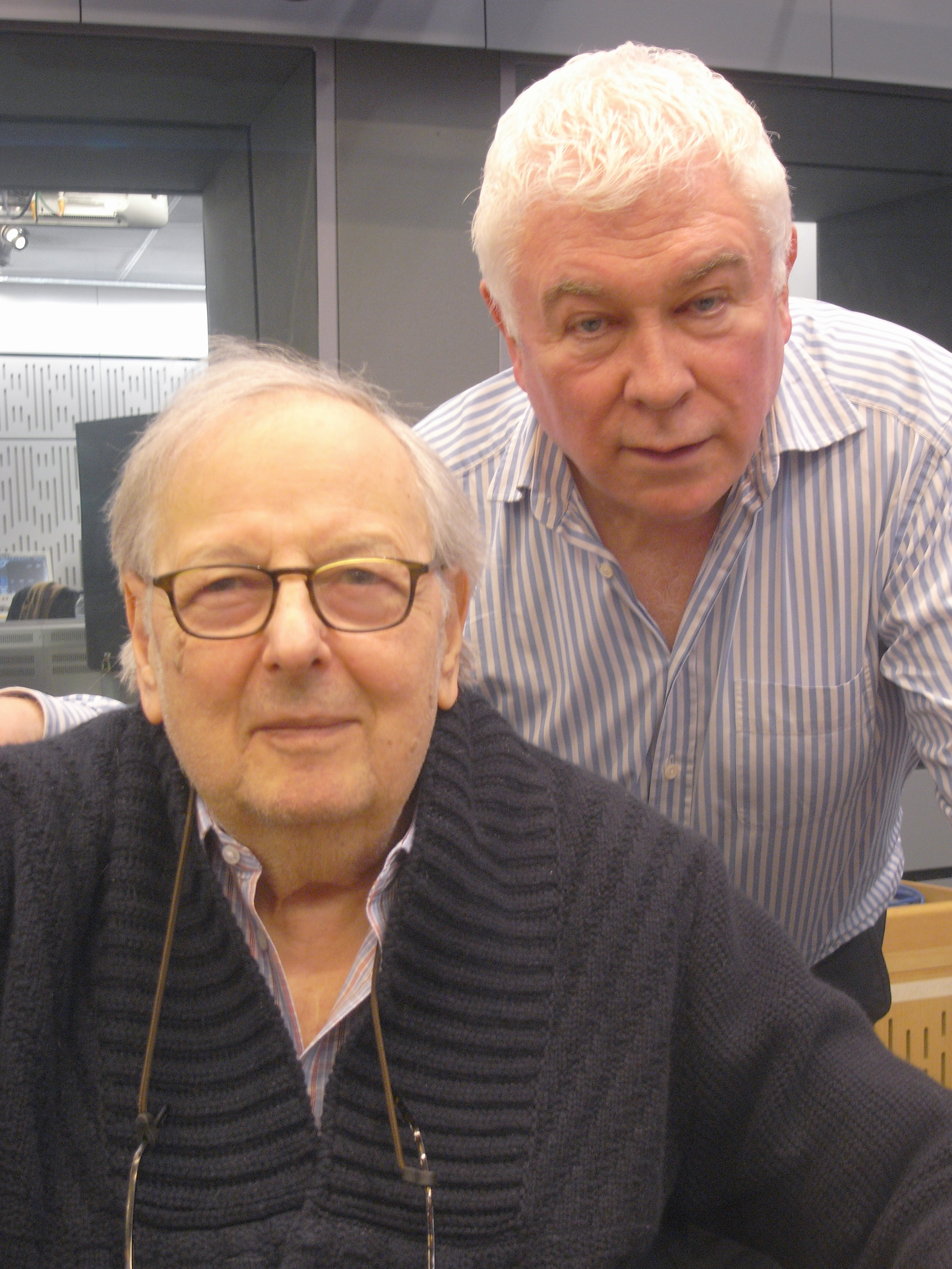 Andre Previn on In Tune with Sean Rafferty